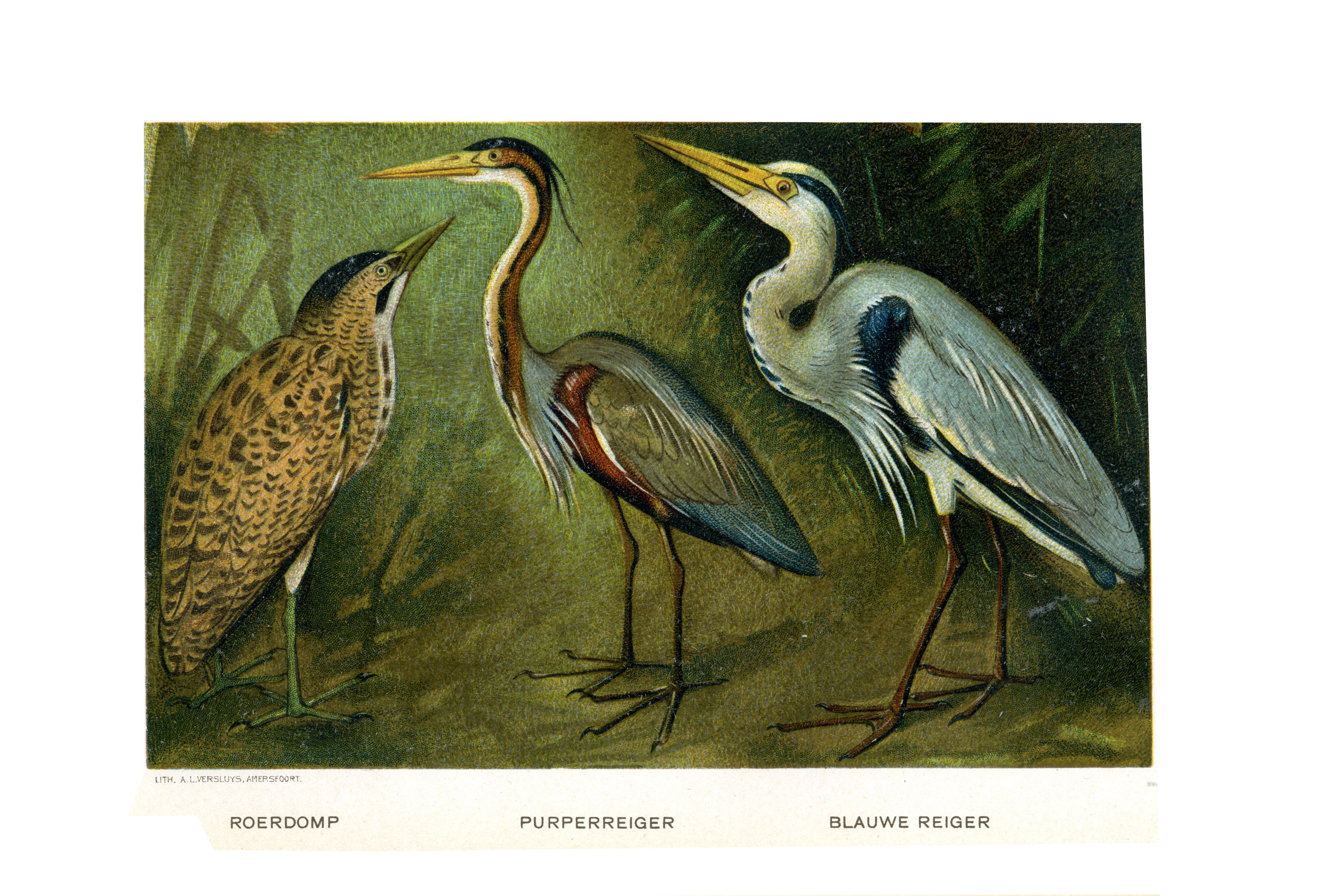 Eurasian bittern, Purple heron, Grey heron, Family Heron